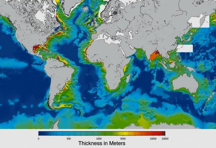 Total Sediment Thickness of the World's Oceans and Marginal Seas